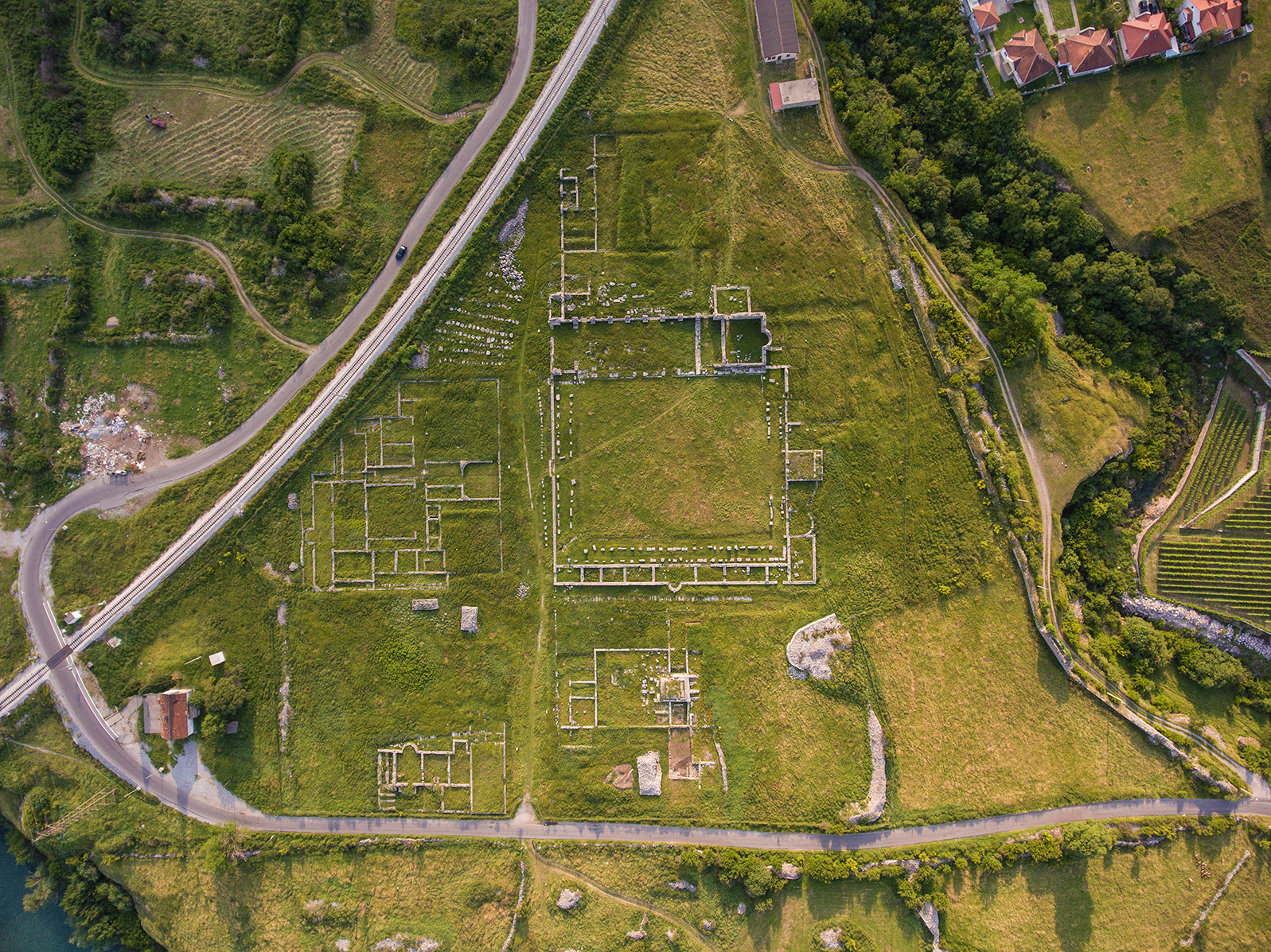 Aeral view of city